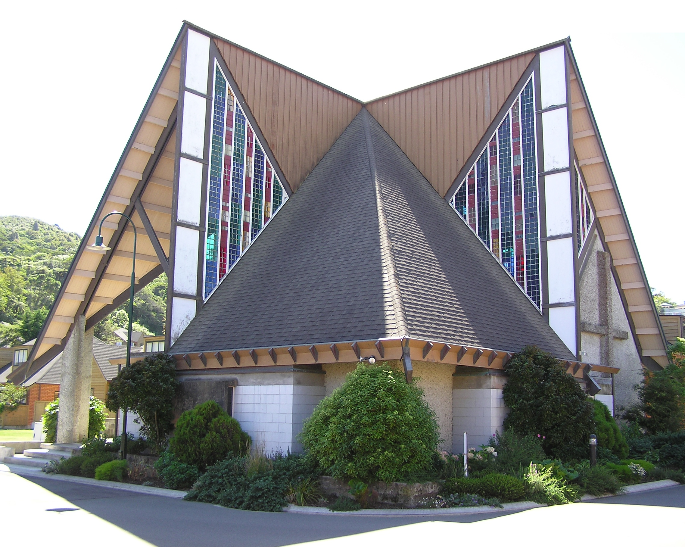 View from the south of the Futuna Chapel, Karori, Wellington, New Zealand.